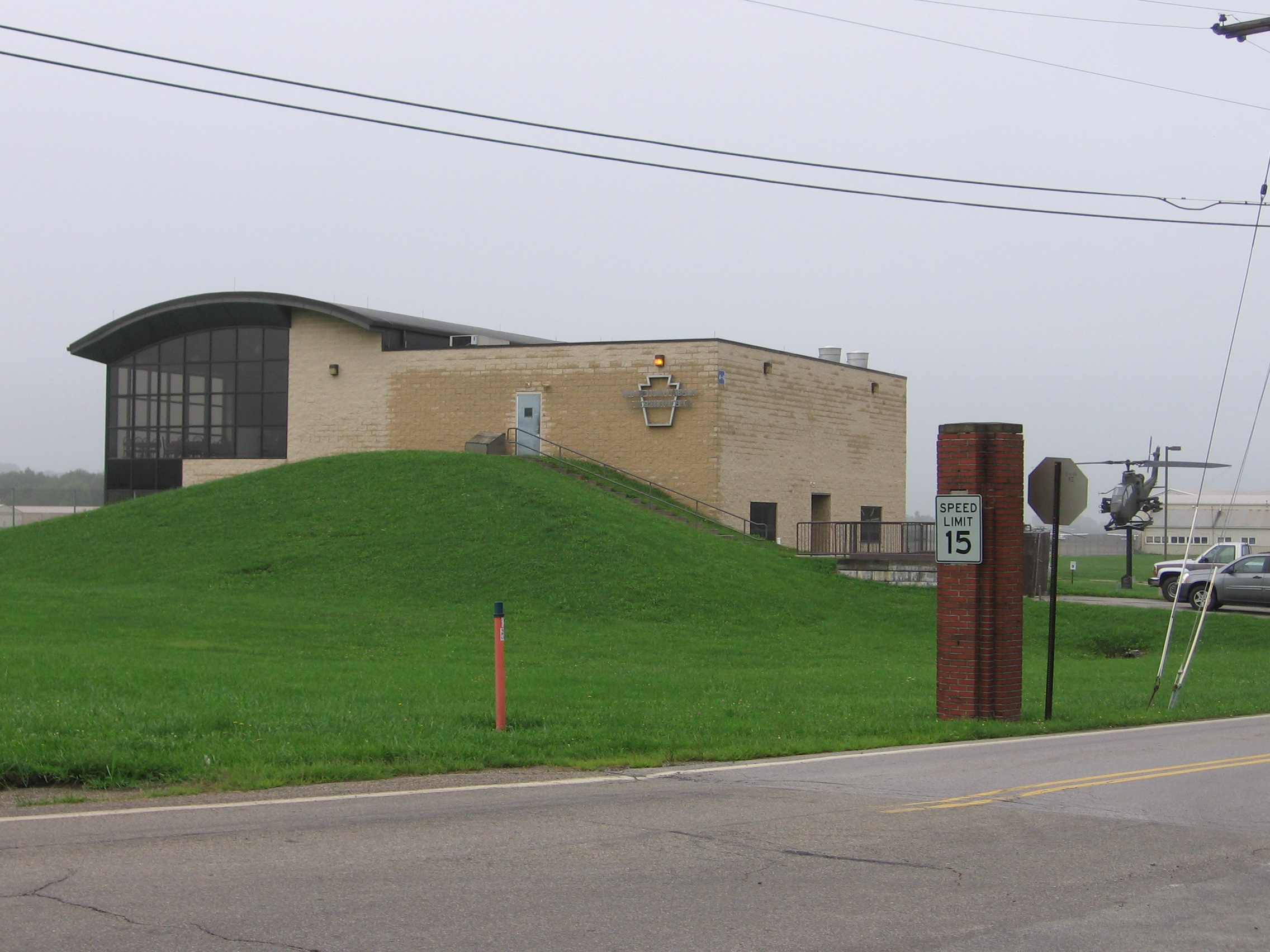 The Butler County Airport terminal building. There is a small waiting area and restaurant in the structure. Photo taken by Mvincec on 21 August en:2007